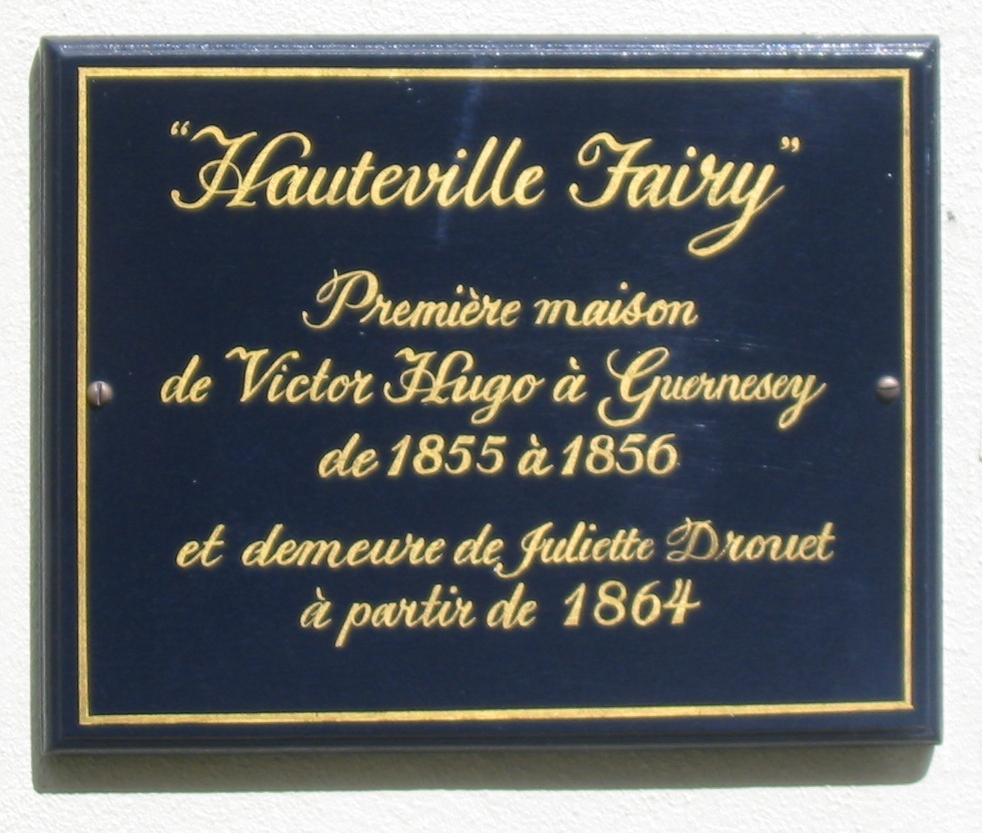 Plaque on former house of Victor Hugo in Guernsey